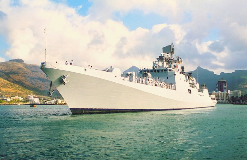 INS Tabar, a Talwar class frigate of the Indian Navy, Bay of Port Louis (Mauritius)